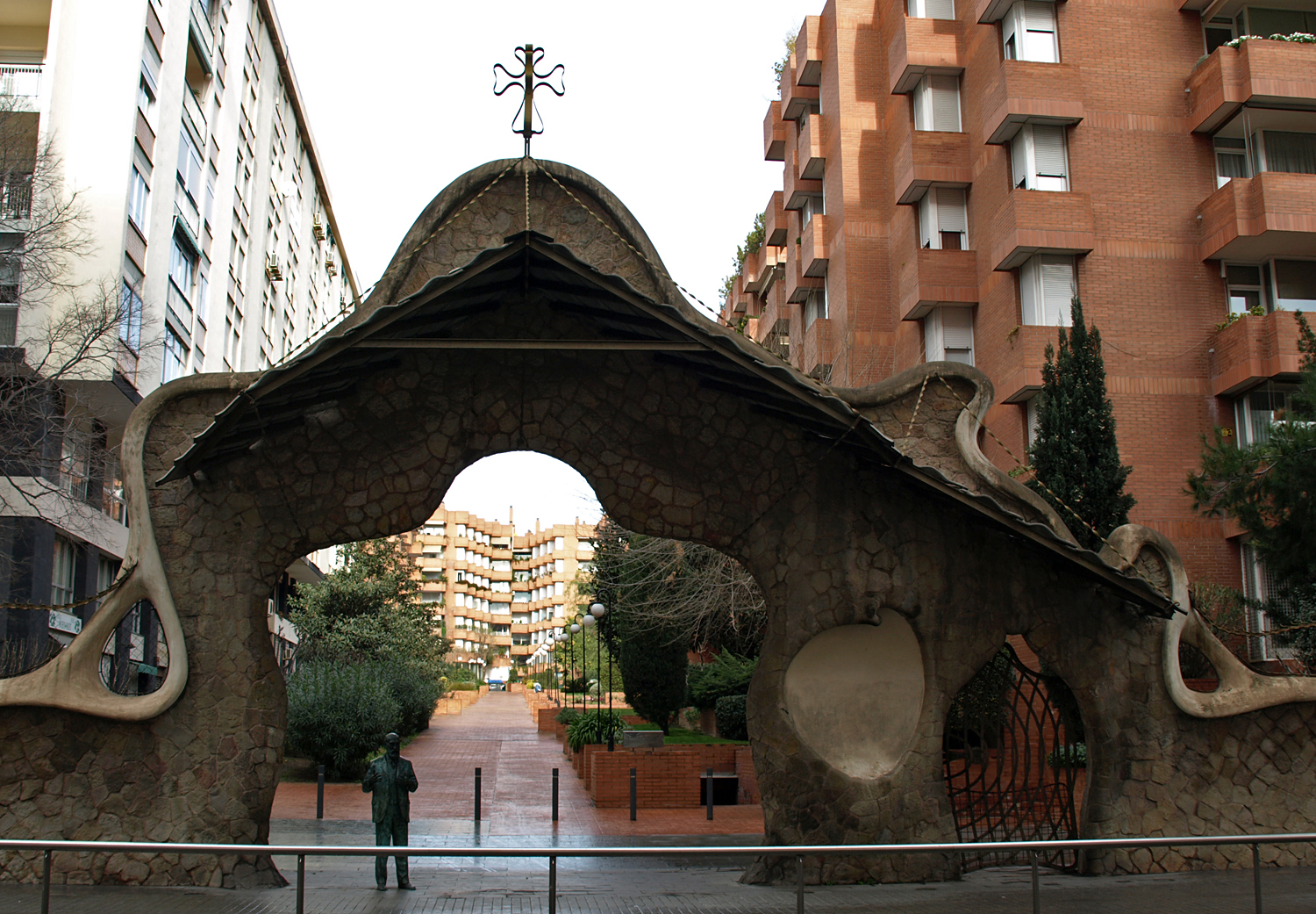 Cases Ramos - Catalan modernisme (Antoni Gaudí, 1901-1902)